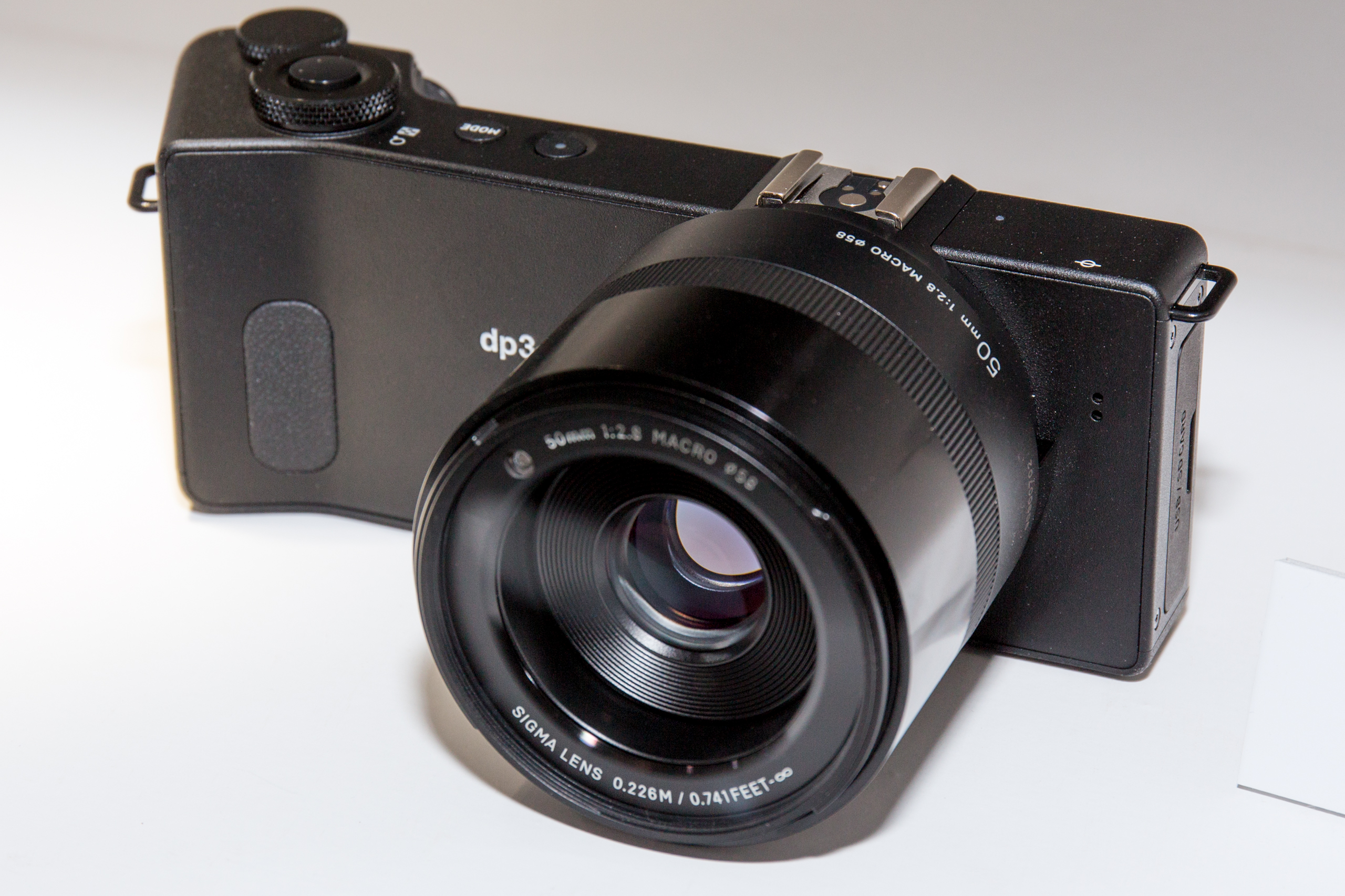 CP+ 2014: 2014 Sigma dp3 Quattro